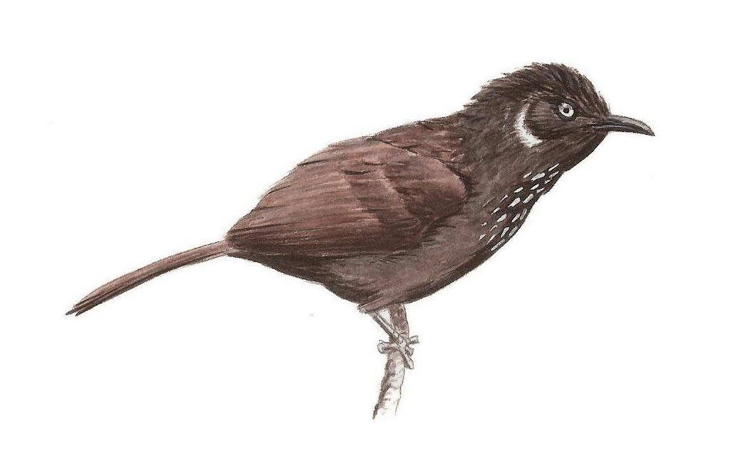 Nonggang Babbler (Stachyris nonggangensis) - Risso Romain